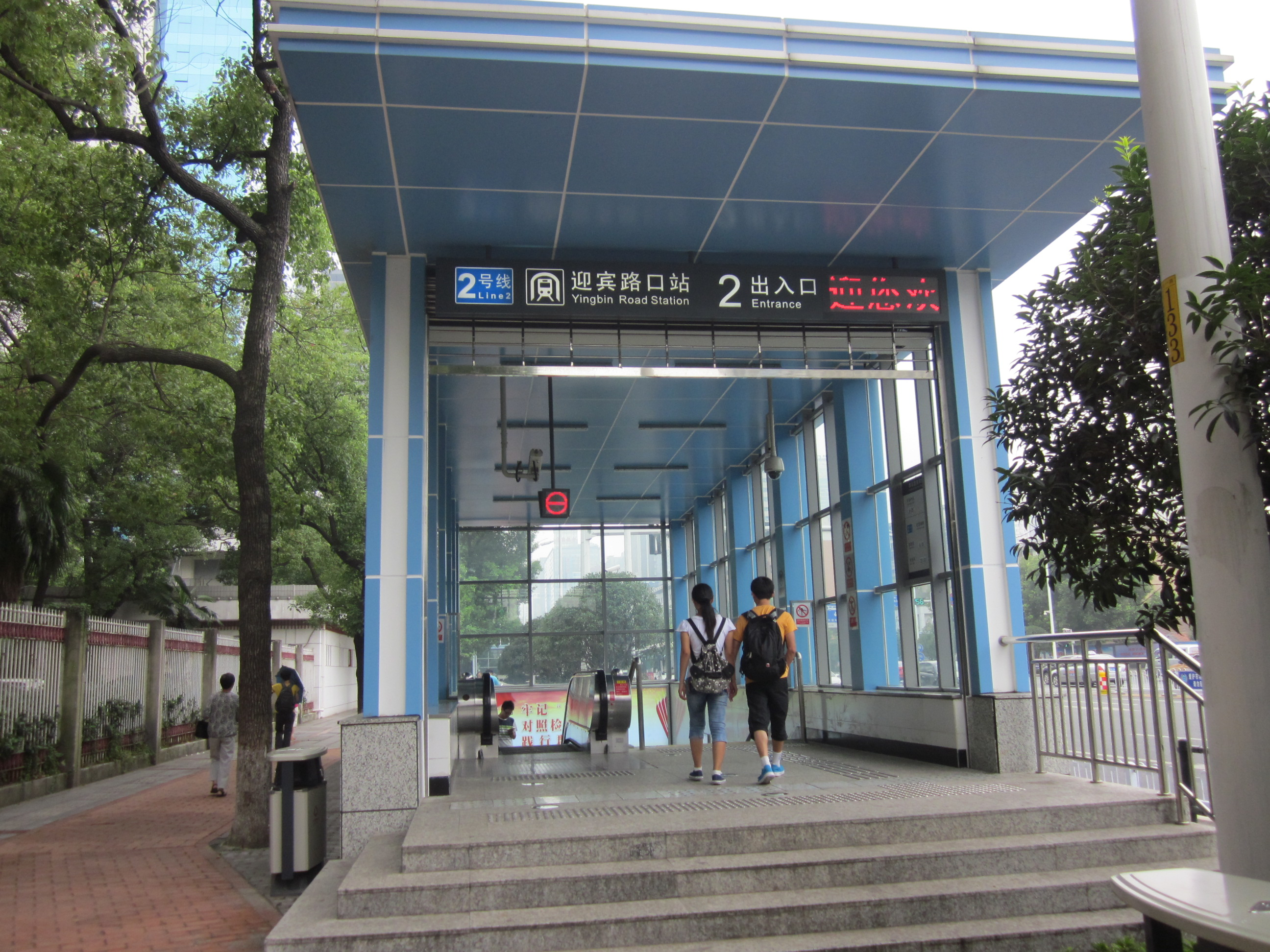 Yingbin Road Station (Chinese: 迎宾路站).